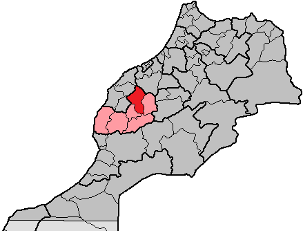 Location of the province Rehamna within the region Marrakech-Tensift-Al Haouz, Morocco. In total, Morocco has 16 regions, subdivided into 62 provinces and 13 prefectures.